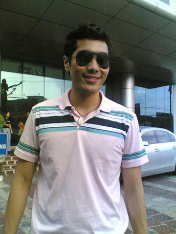 Photo was taken outside the GMA 7 building in Quezon City using a camera phone. Photo was edited through the Photoshop image editor program.